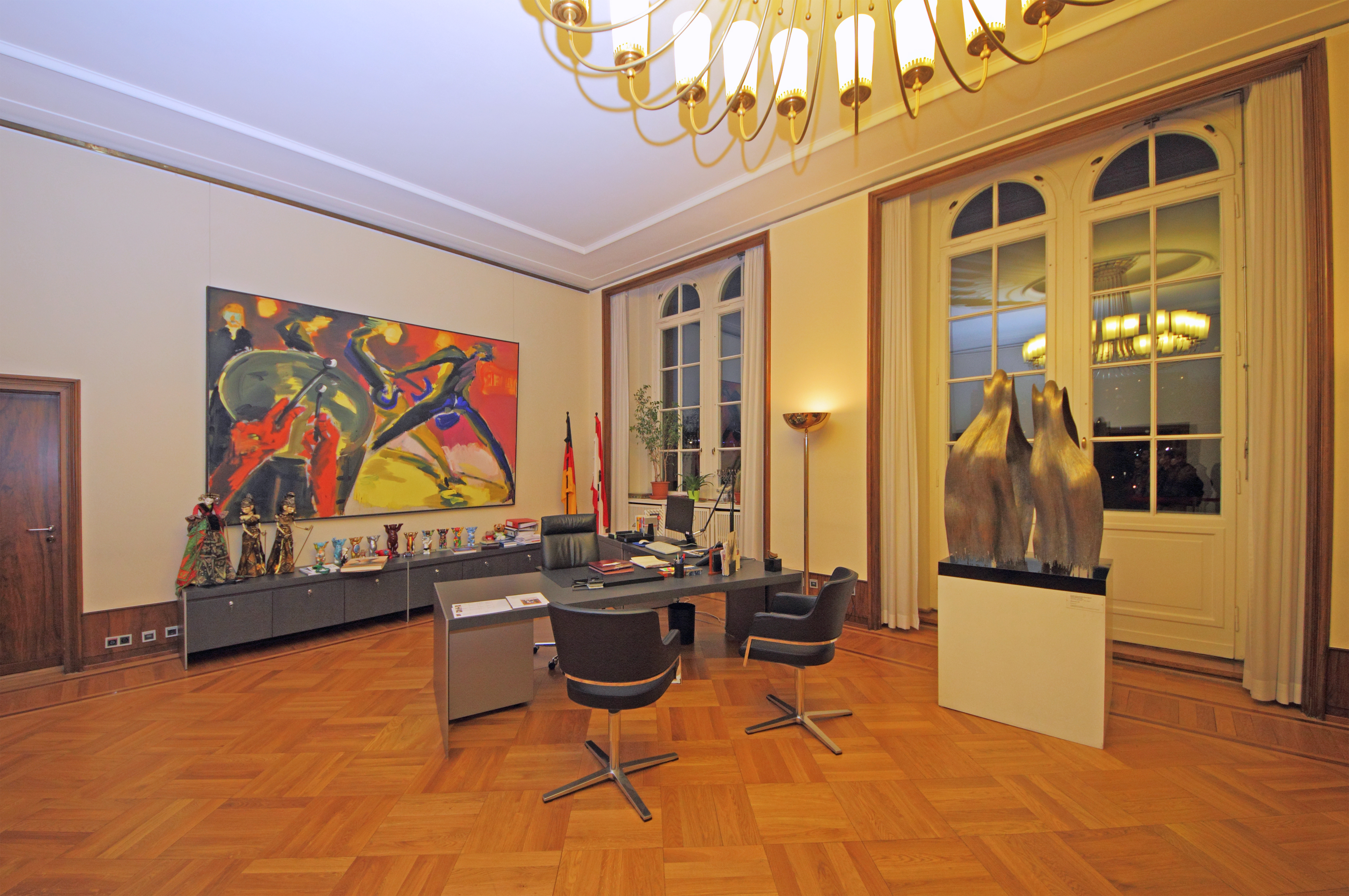 Interiors of Red Townhall in Berlin, Germany. Taken during the Night of Museums, March 2013.